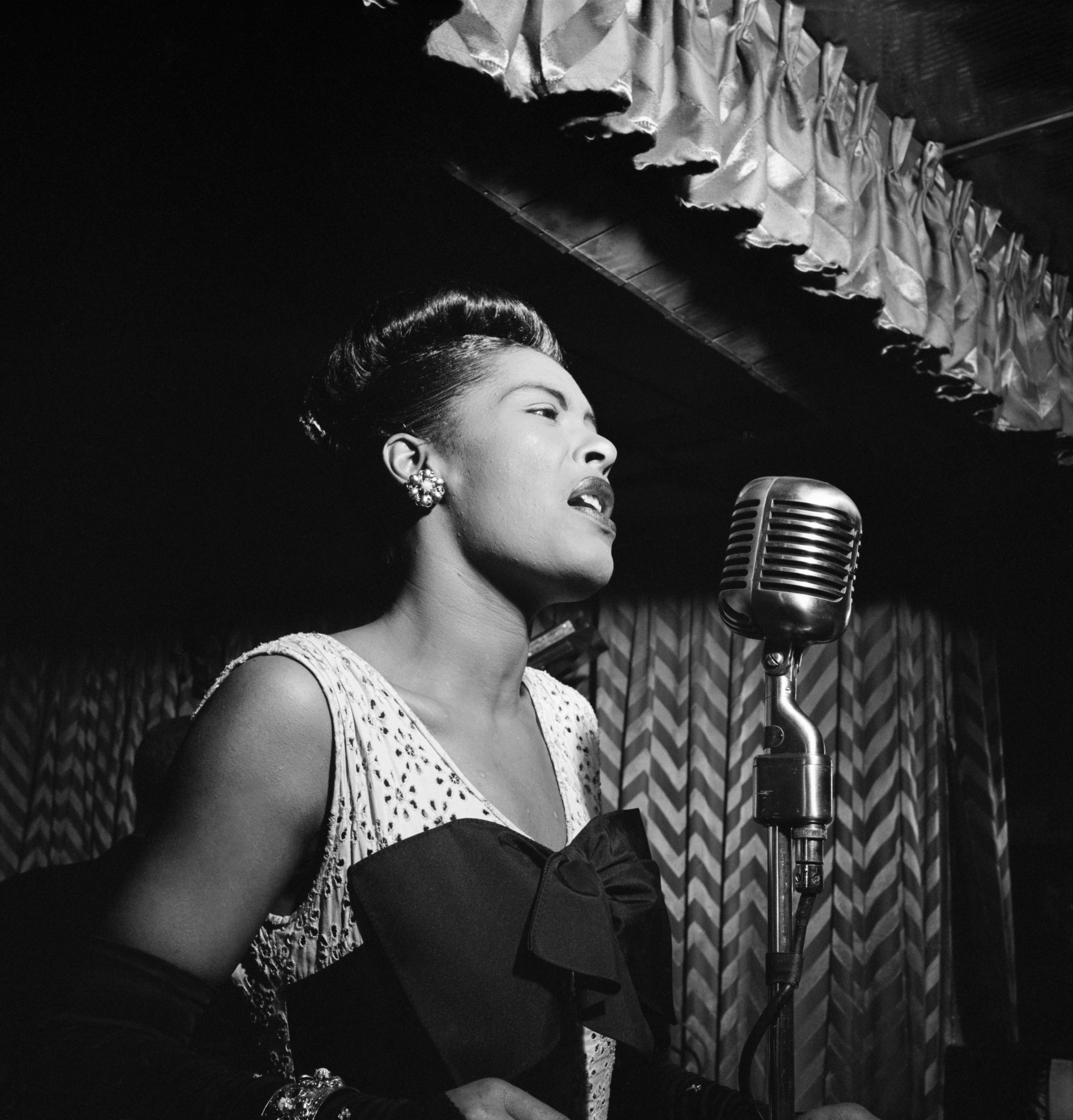 Billie Holiday at the Downbeat club, a jazz club in New York City. [1]